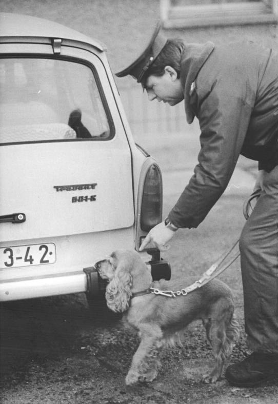 customs drug detection dog at Berlin checkpoint Heinrich-Heine-Strasse